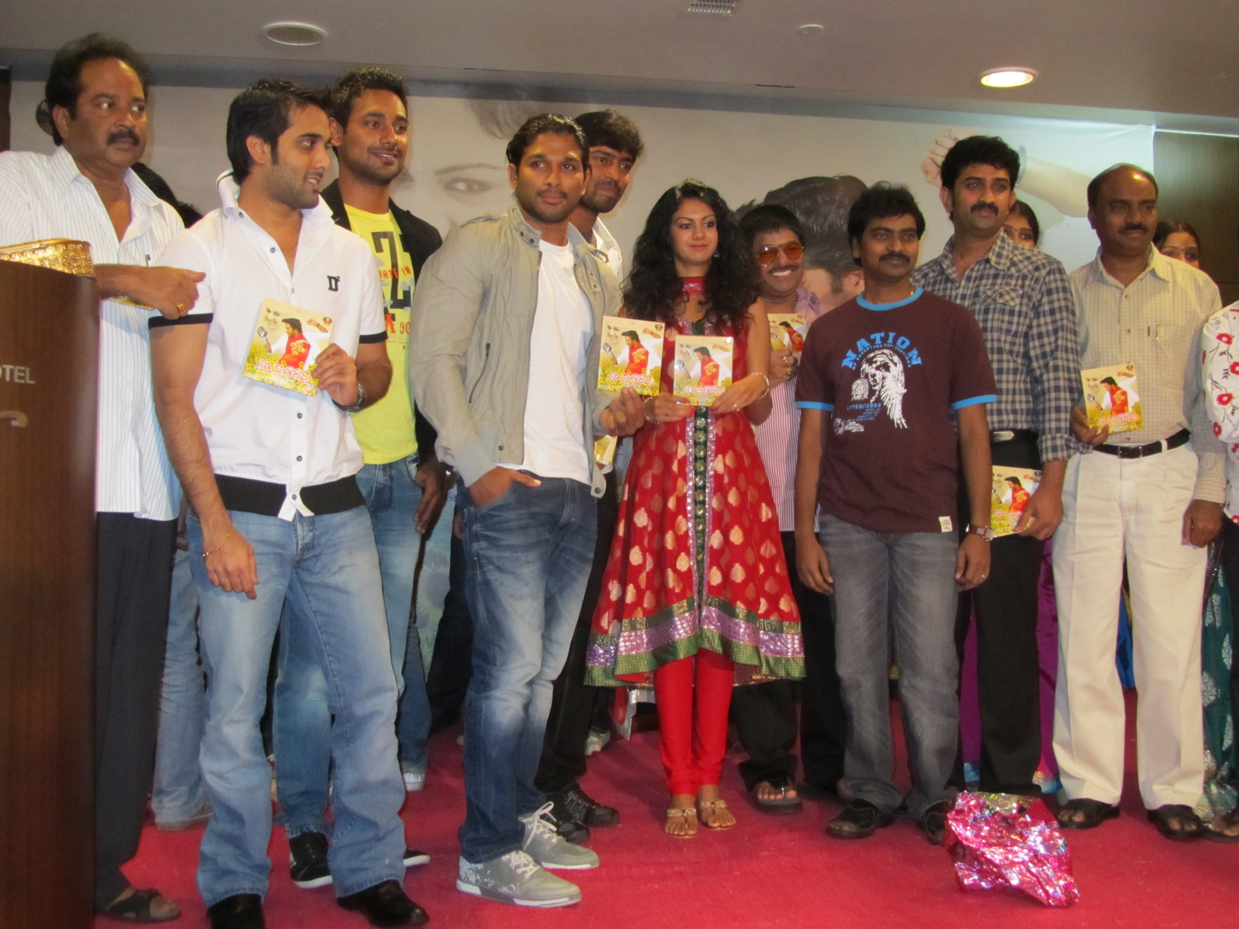 Singer Mallikarjun at Kathi Kantha Rao Audio Launch